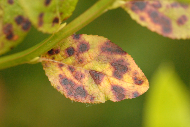 Valdensia heterodoxa from Commanster, Belgium. If you think this is a different taxon, please contact James Lindsey.